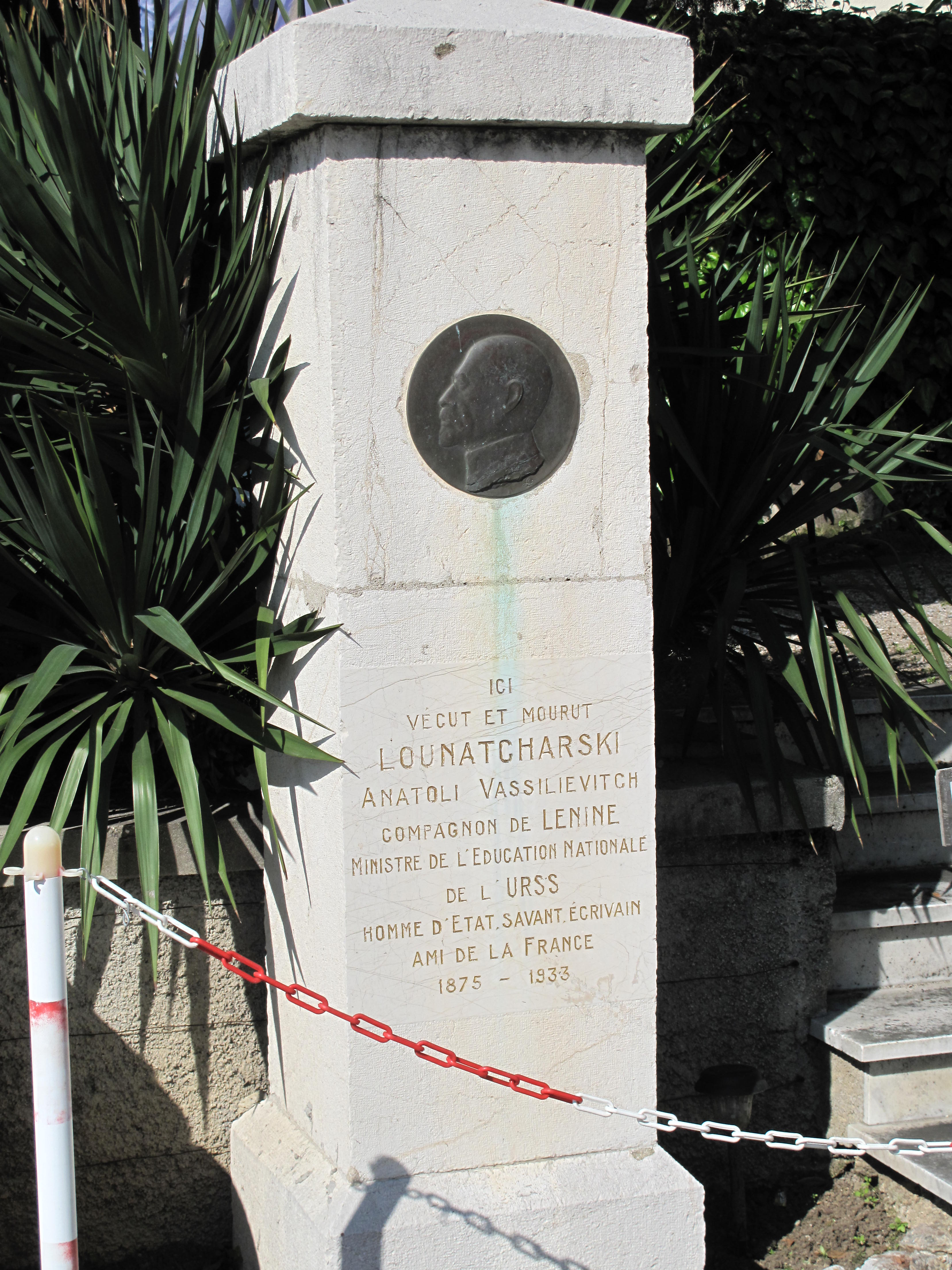 Monument near the building where died Anatoliy Lunatcharskiy, Menton, Alpes-Maritimes (France).